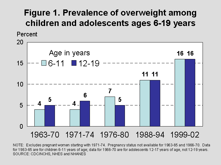 This is a diagram depicting the rise of overweight among ages 6-19 in the US.